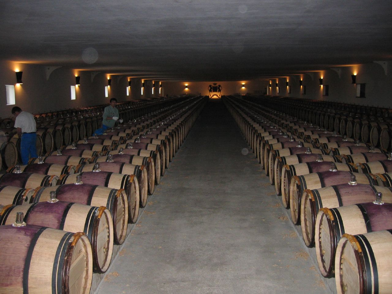 At the French Bordeaux winery